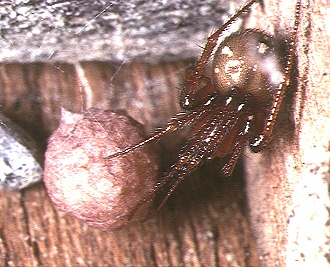 female Nesticodes rufipes with eggsac from Okinawa.